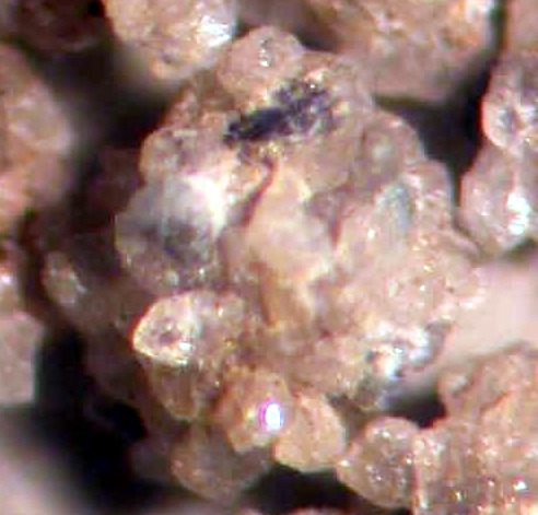 Dunvegan Formation sandstone - microscope photo